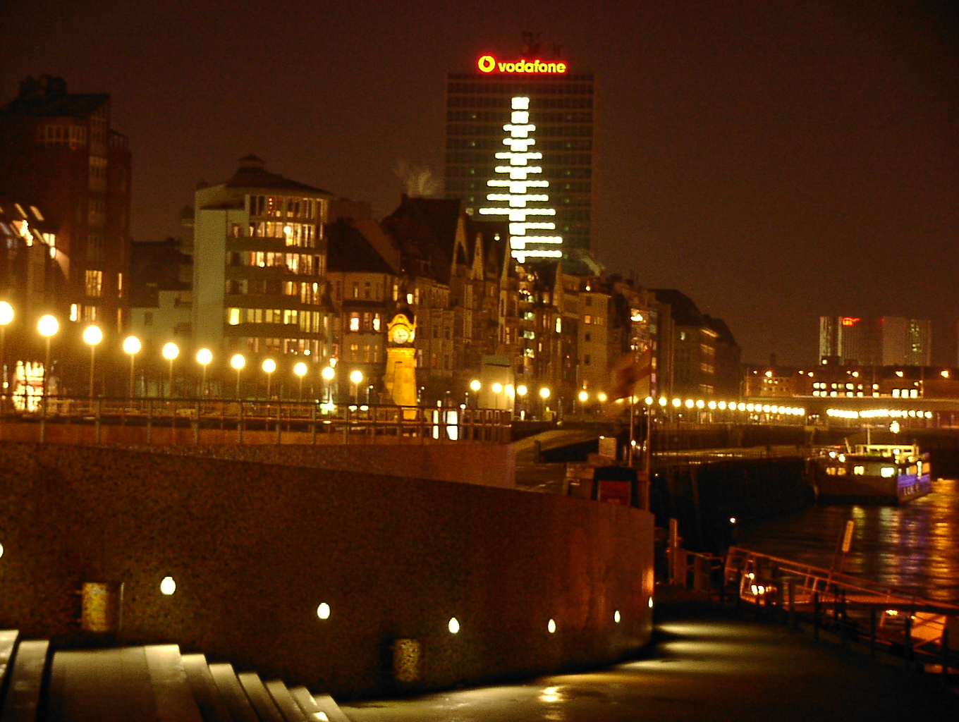 Duesseldorf riverside by night